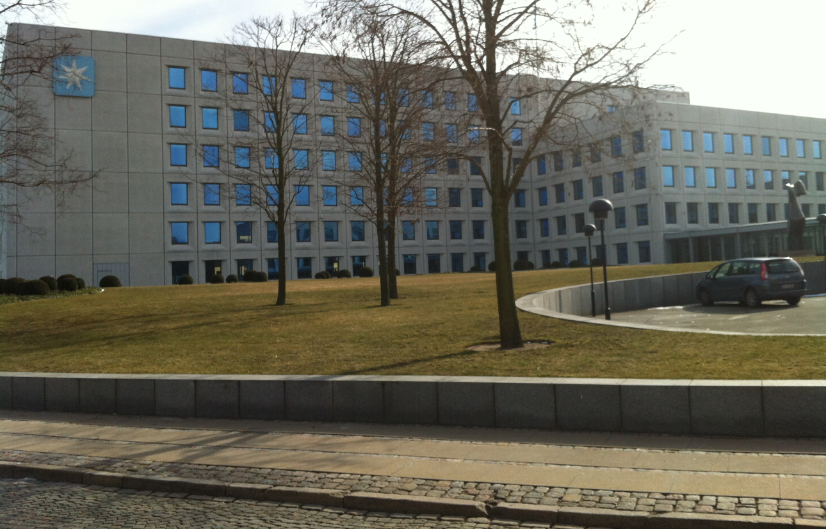 Maersk Headquarters